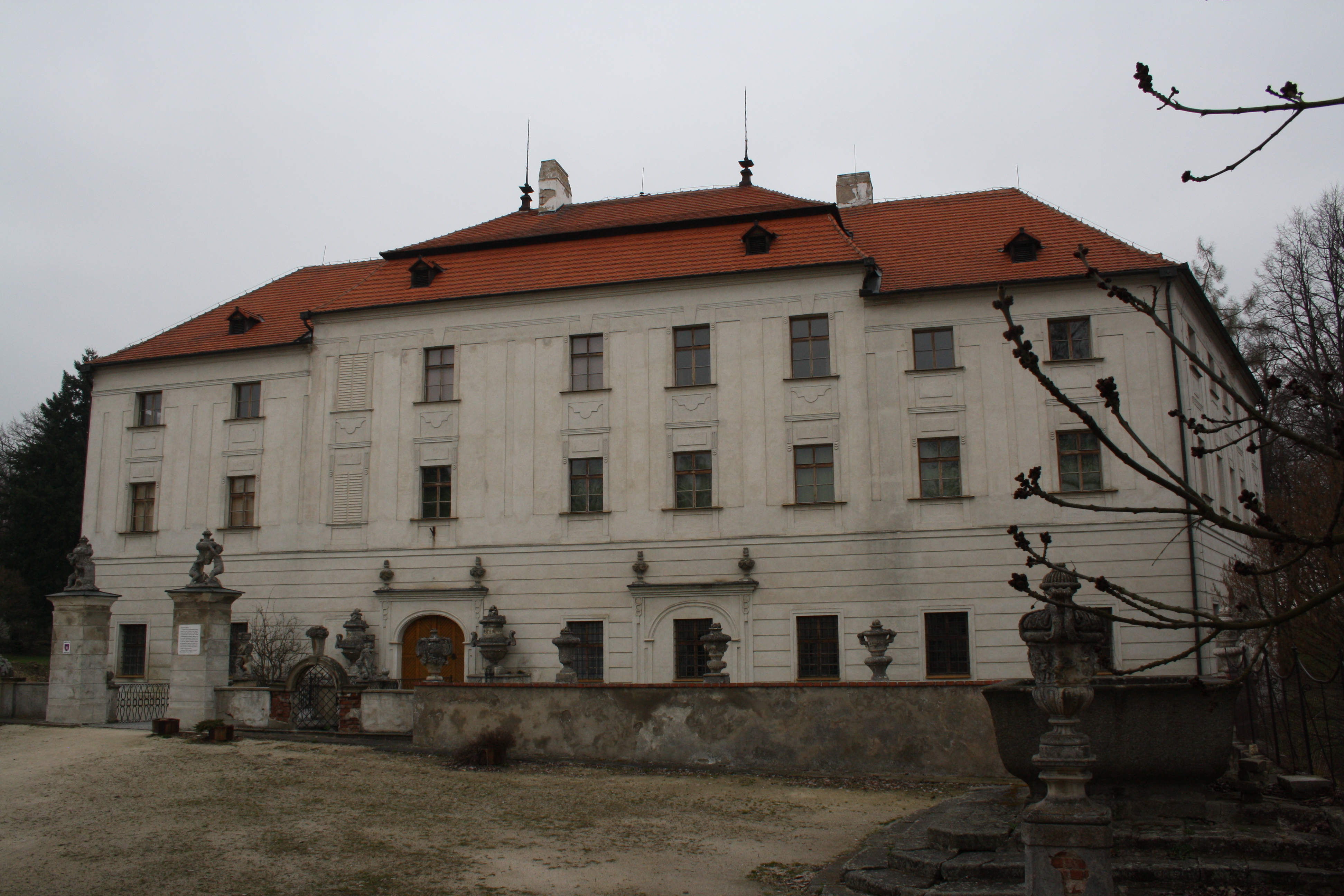 Front view of Budišov Chateau.